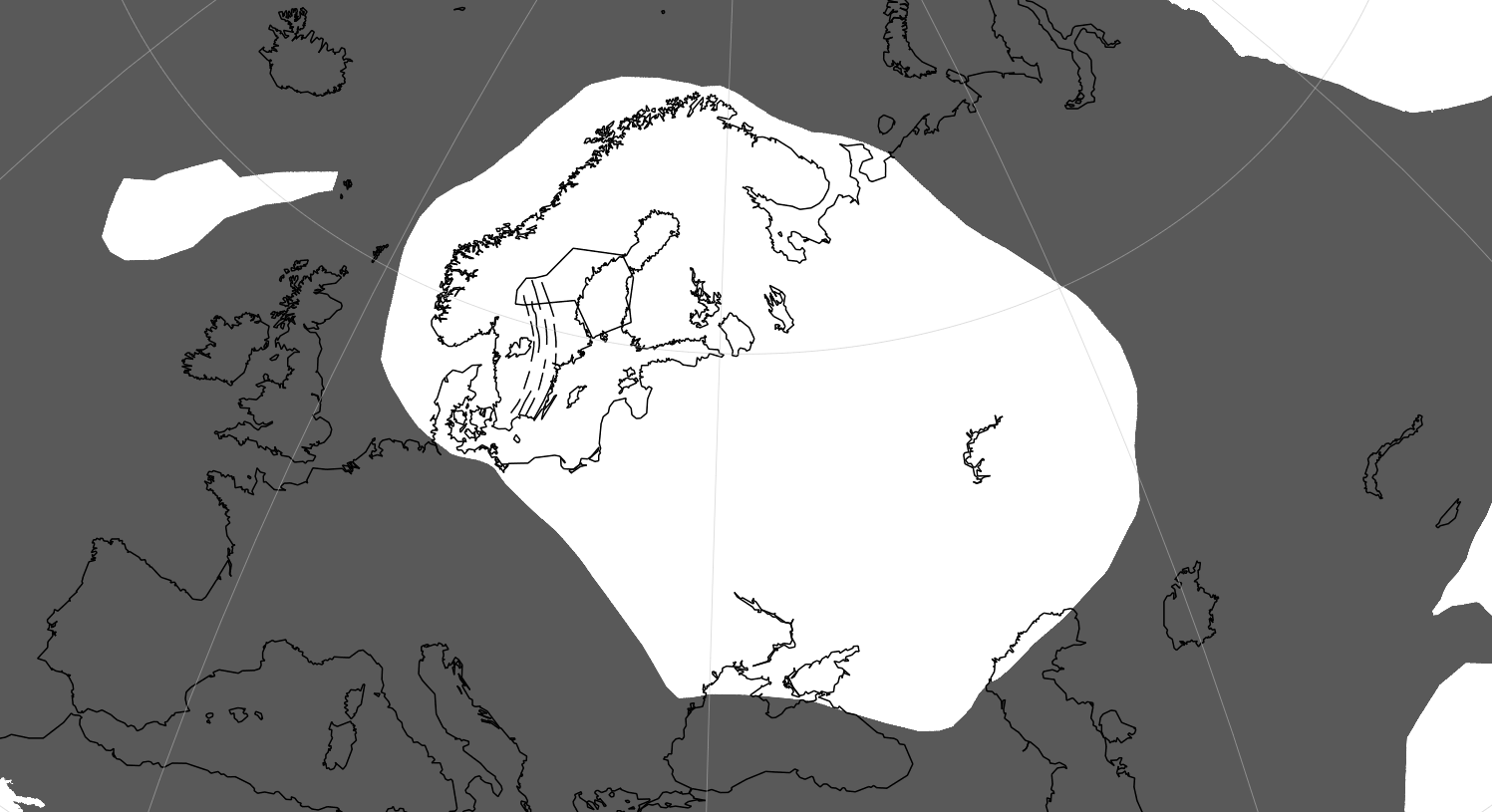 Outline (in white) of Baltica from Li et al. 2008. Polygon in central Sweden is the Central Scandinavian Dolerite Group (1271–1246 Ma). Dashed lines in southern Sweden are the Blekinge-Dalarna dyke swarm (945 Ma). White polygon (top left, also from Li et al. 2008) is the Rockall Plateau. Made in GPlates using data sets described below.